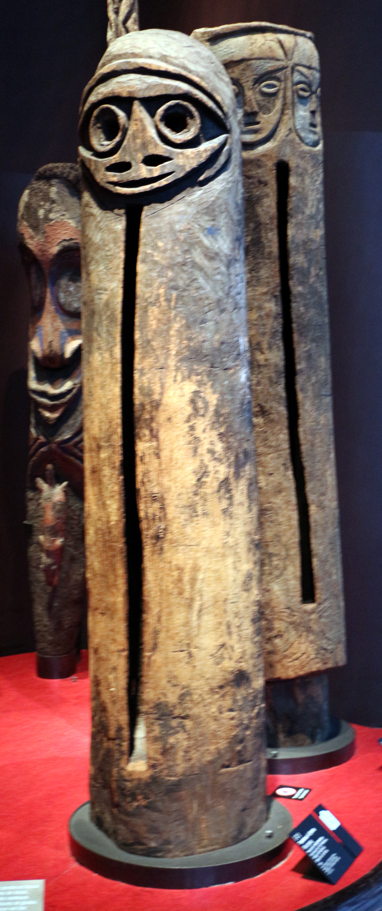 Oceanic art in the Musée du quai Branly